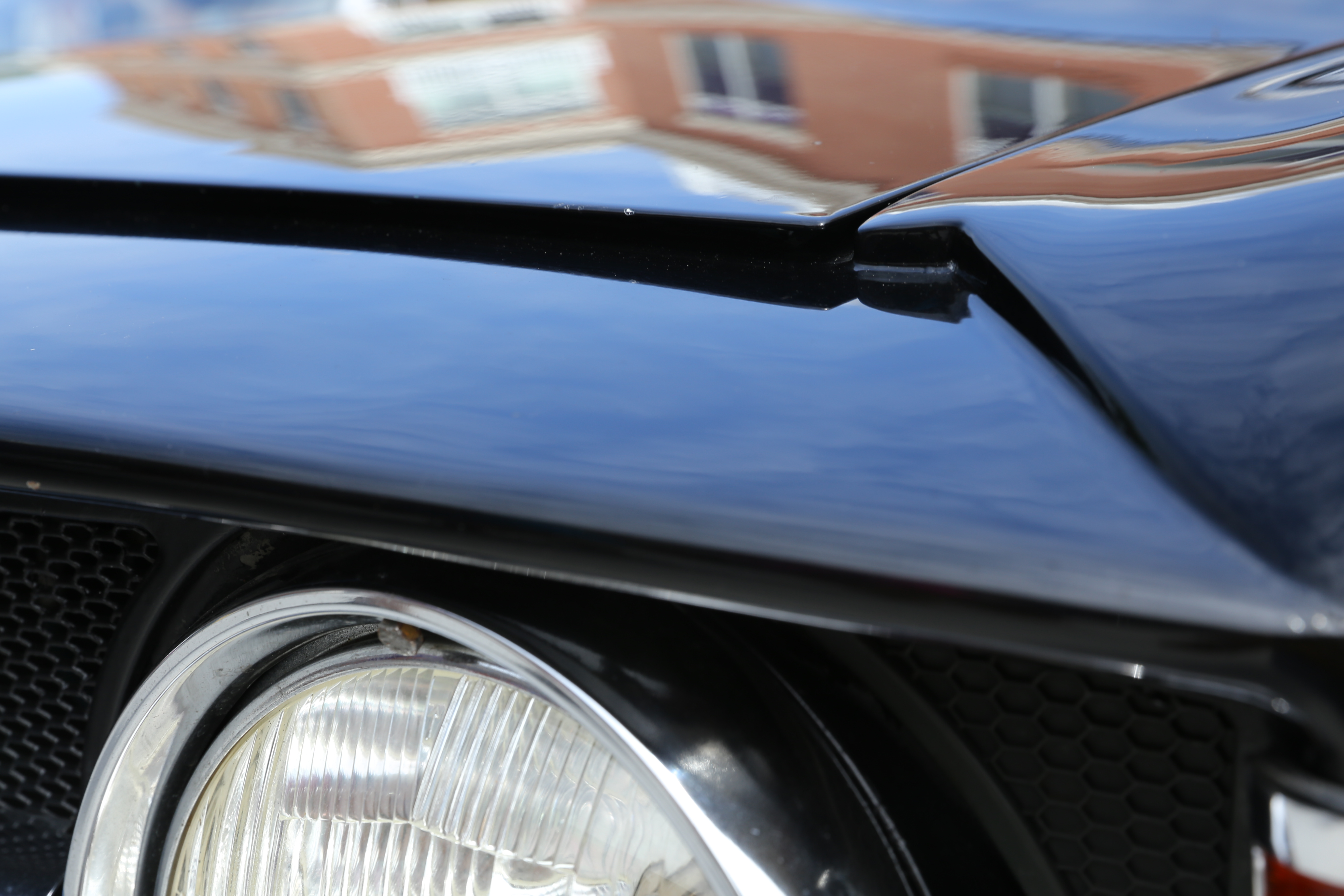 Classic Italian cars are often of indeterminate vintage. This car has the original dashboard coupled to a two-spoke steering wheel, which should make it a 1968, but many of these parts are easily changed down the road. Also, Alfa kept using old parts until stocks ran out (and sometimes out of order...), so "correct" is pretty vague. One thing that is certain is that it's from before 1969 and still has the stepped bonnet (or "scalino").